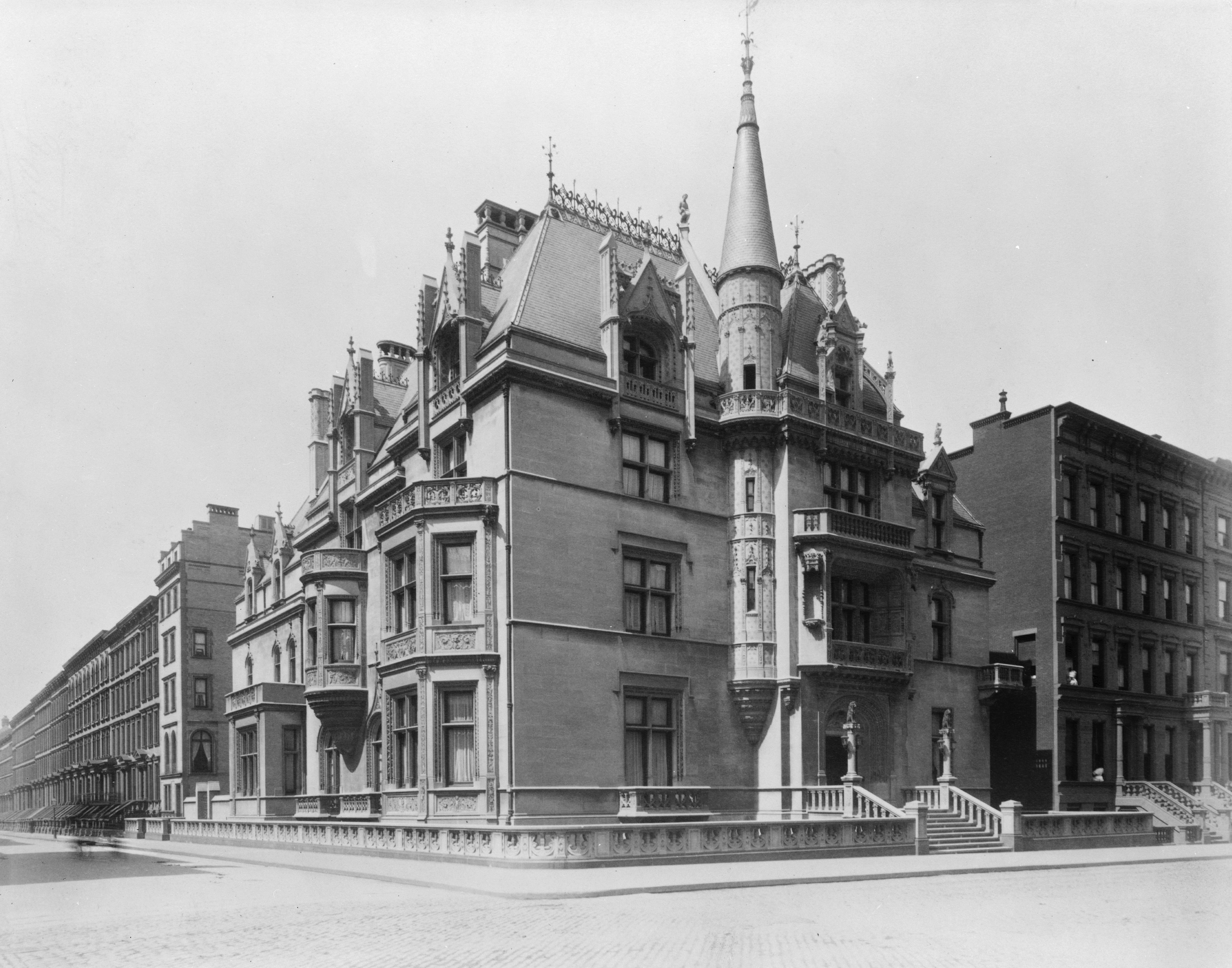 Residence of William K. and Alva Vanderbilt at 660 5th Avenue, New York, New York.